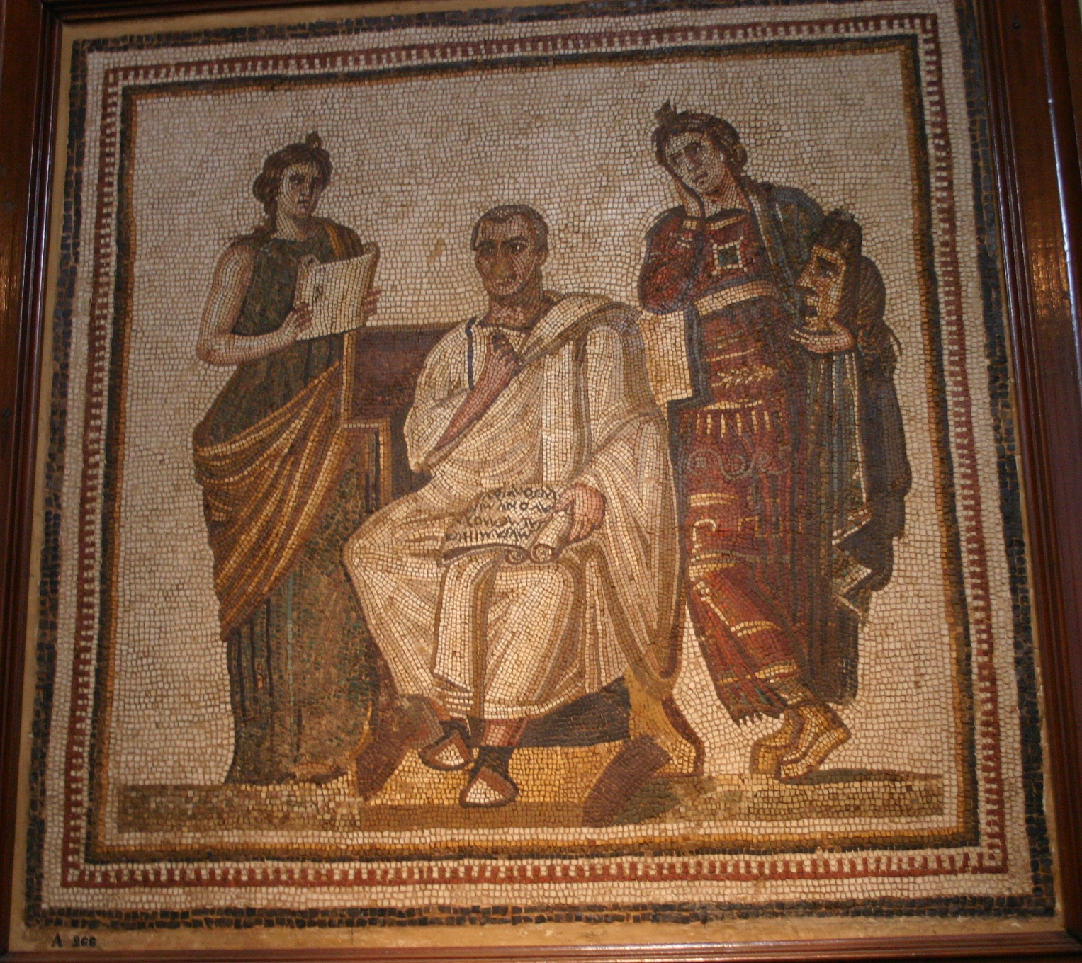 The great Latin poet, Virgil, holding a volume on which is written the Aenid. On either side stand the two muses: "Clio" (history) and "Melpomene" (tragedy). The mosaic, which dates from the 3rd Century A.D., was discovered in the Hadrumetum in Sousse, Tunisia and is now on display in the Bardo Museum in Tunis, Tunisia.